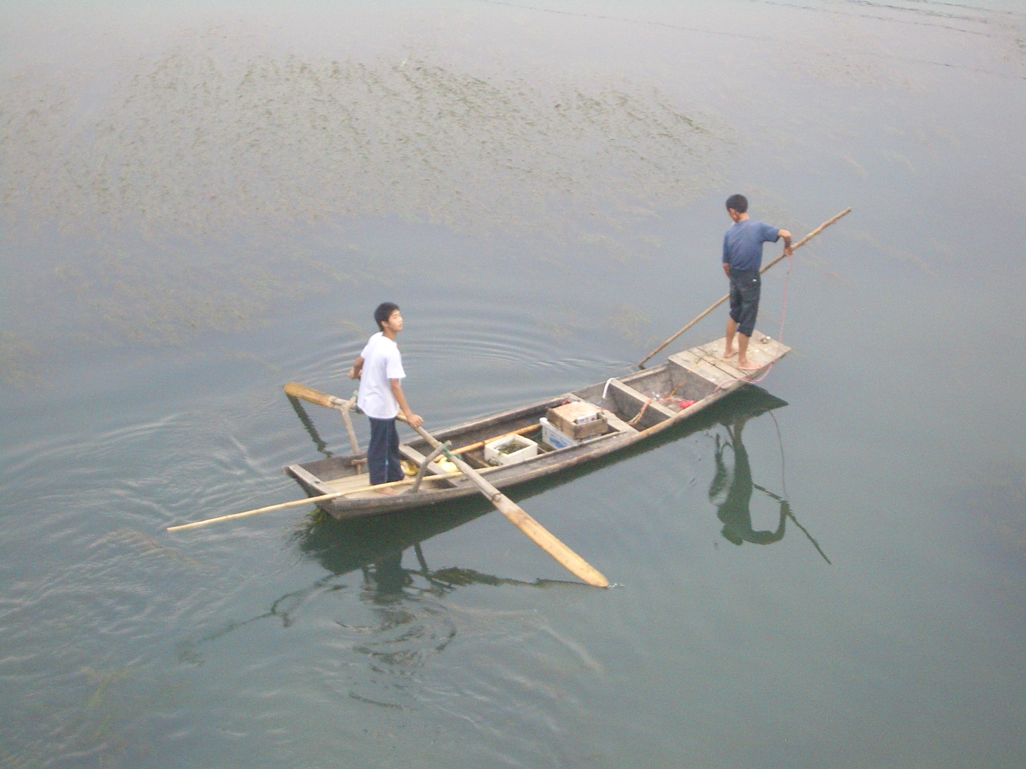 A view of the Fushui (富水) River from the bridge on the National Highway G106/G316 in Yangxin County, Hubei (between Longgang and Futu).